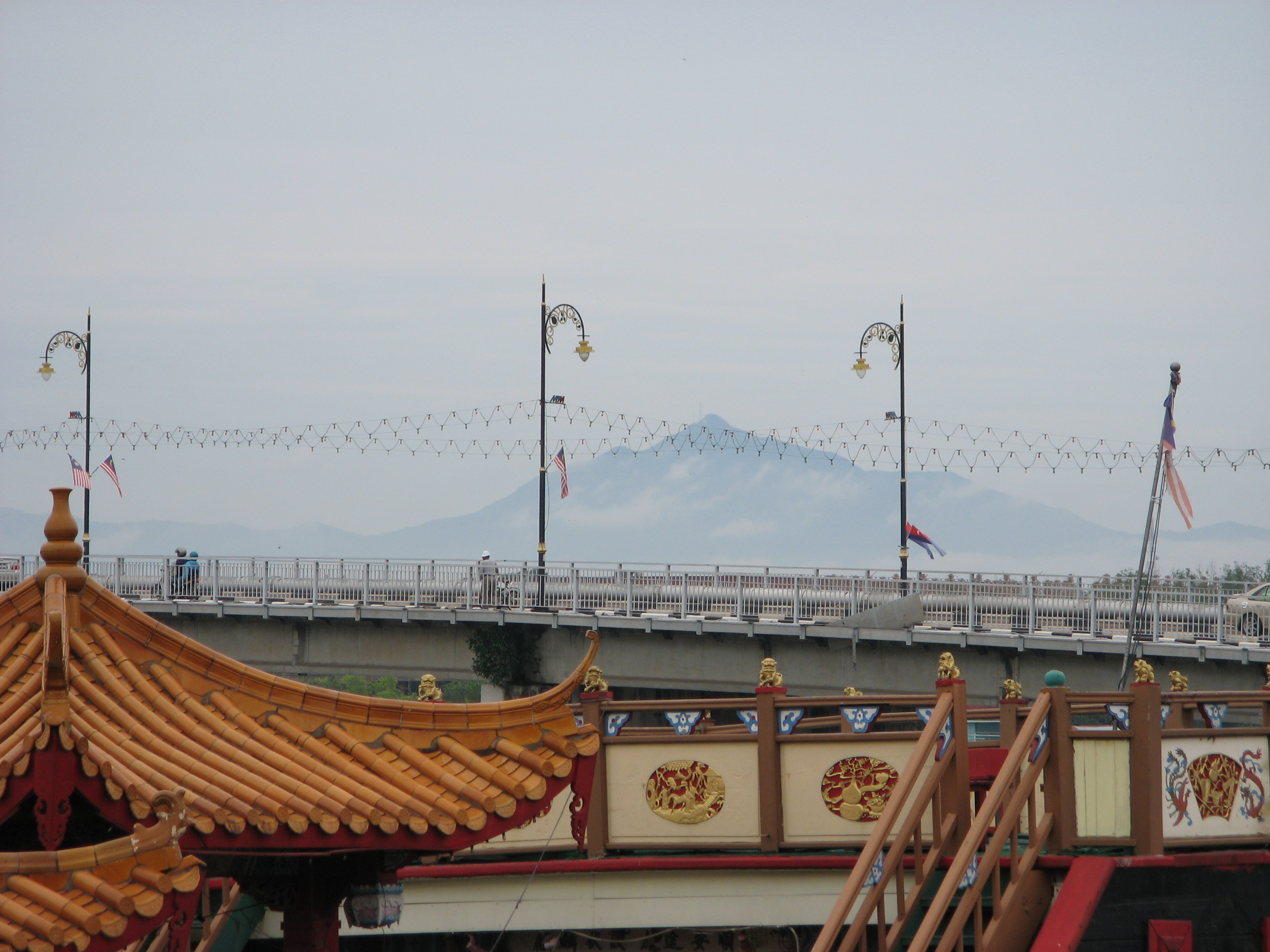 Gunung Ledang view from Muar River bank